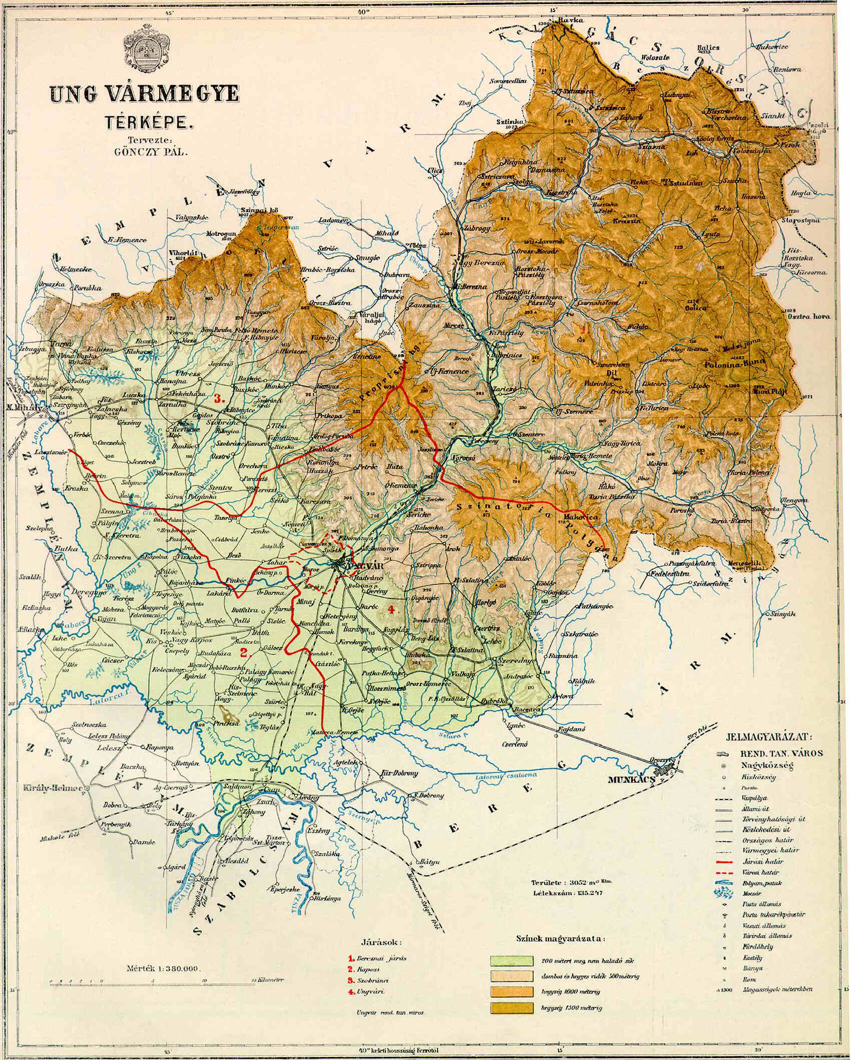 County of Ung in the pre-Trianon Kingdom of Hungary. Komitat Ung w Królestwie Węgier przed traktatem w Trianon.